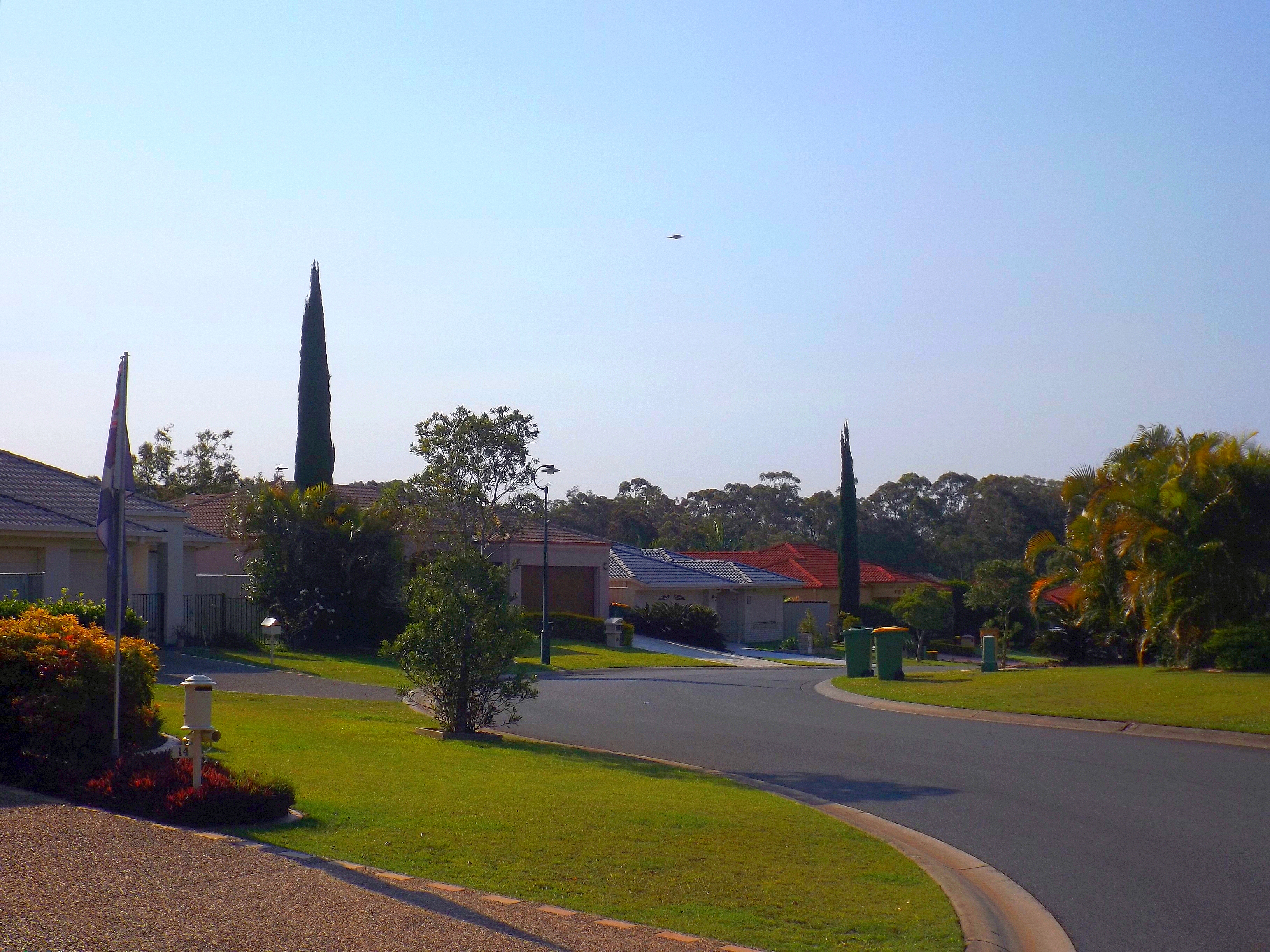 Photo of Asperia Street in Reedy Creek, Gold Coast City, Queensland, Australia.